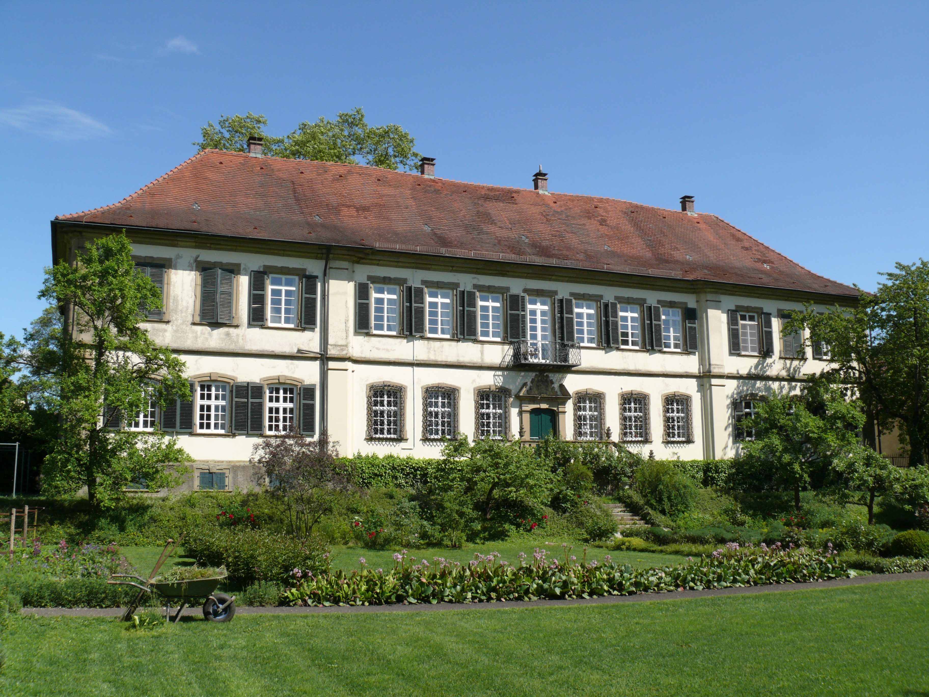 Bad Rappenau, district Bonfeld: western façade of the Oberschloss, seen from WNW, in May, at afternoon.